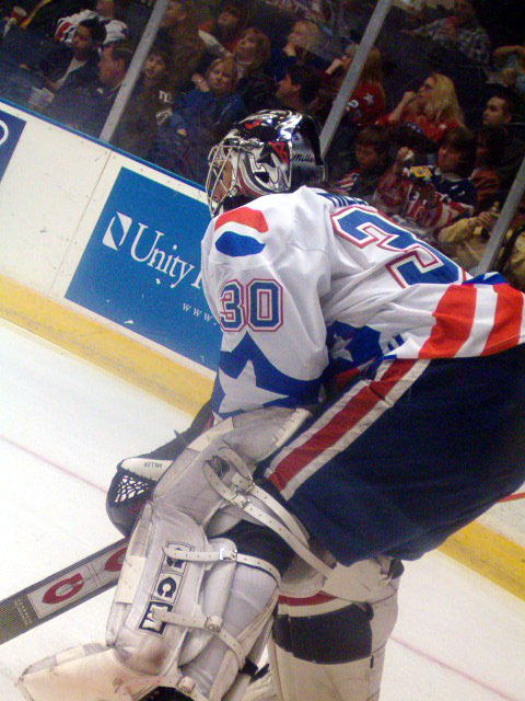 Ryan Miller, goaltender of Rochester Americans